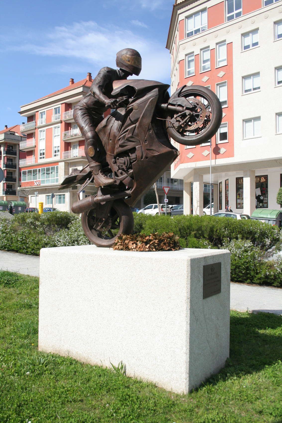 Monument to Dani Rivas by José Molares